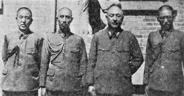 Korechika Anami in china